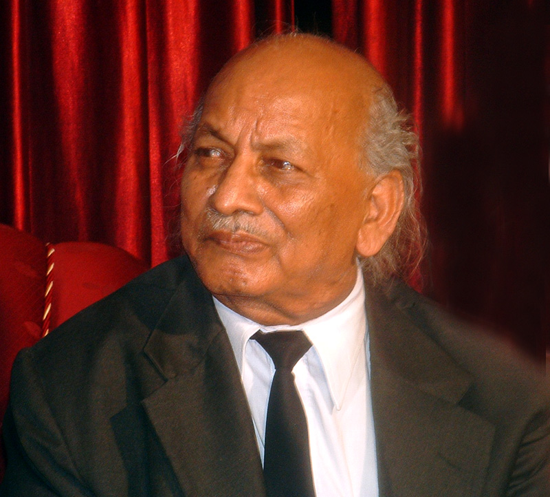 This PHOTO WAS TAKEN BY AUTHOR ON THE MARRIAGE OF HER SISTER .